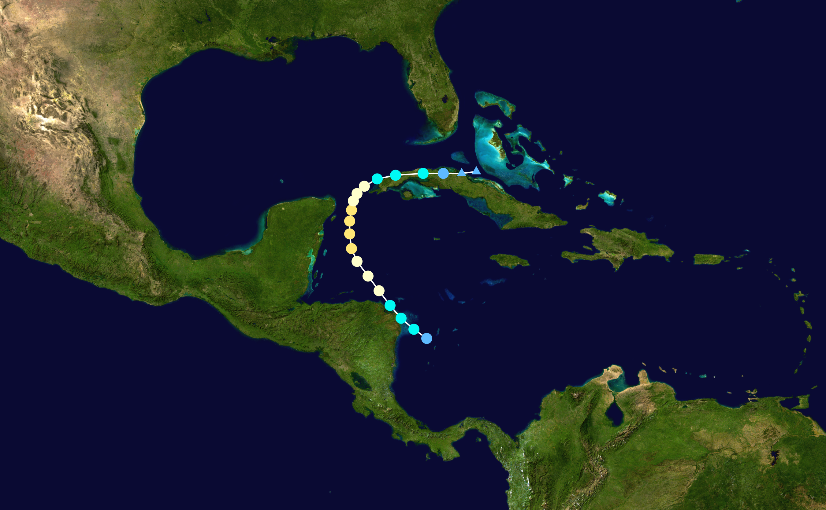 Track map of Hurricane Paula of the 2010 Atlantic hurricane season. The points show the location of the storm at 6-hour intervals. The colour represents the storm's maximum sustained wind speeds as classified in the Saffir–Simpson scale (see below), and the shape of the data points represent the nature of the storm, according to the legend below. Saffir–Simpson scale Tropical depression≤38 mph≤62 km/h Category 3111–129 mph178–208 km/h Tropical storm39–73 mph63–118 km/h Category 4130–156 mph209–251 km/h Category 174–95 mph119–153 km/h Category 5≥157 mph≥252 km/h Category 296–110 mph154–177 km/h Unknown Storm type Tropical cyclone Subtropical cyclone Extratropical cyclone / Remnant low / Tropical disturbance / Monsoon depression